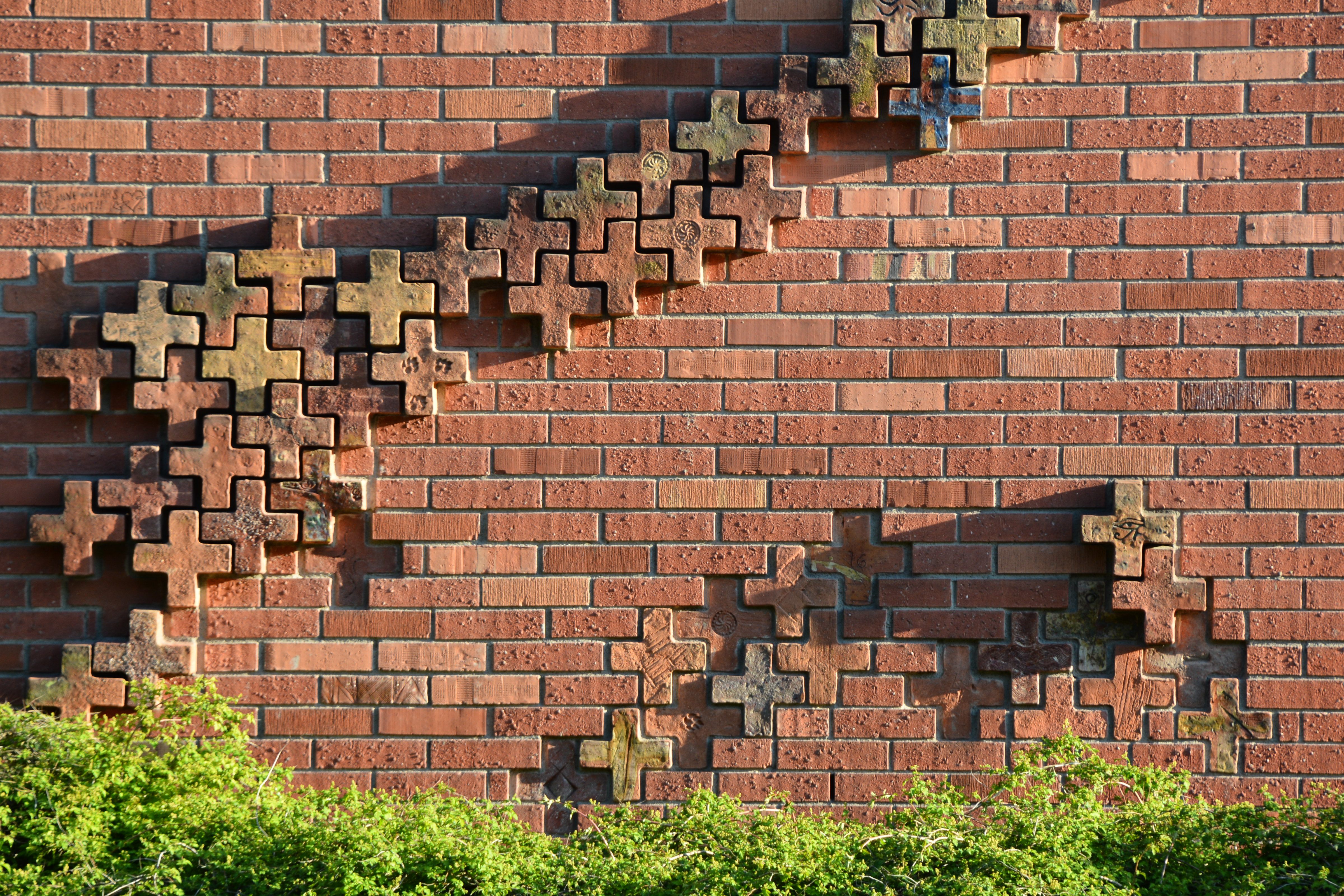 Detail of Lillemor Petersson's Stentecken, Sankt Görans sjukhus, Stockholm